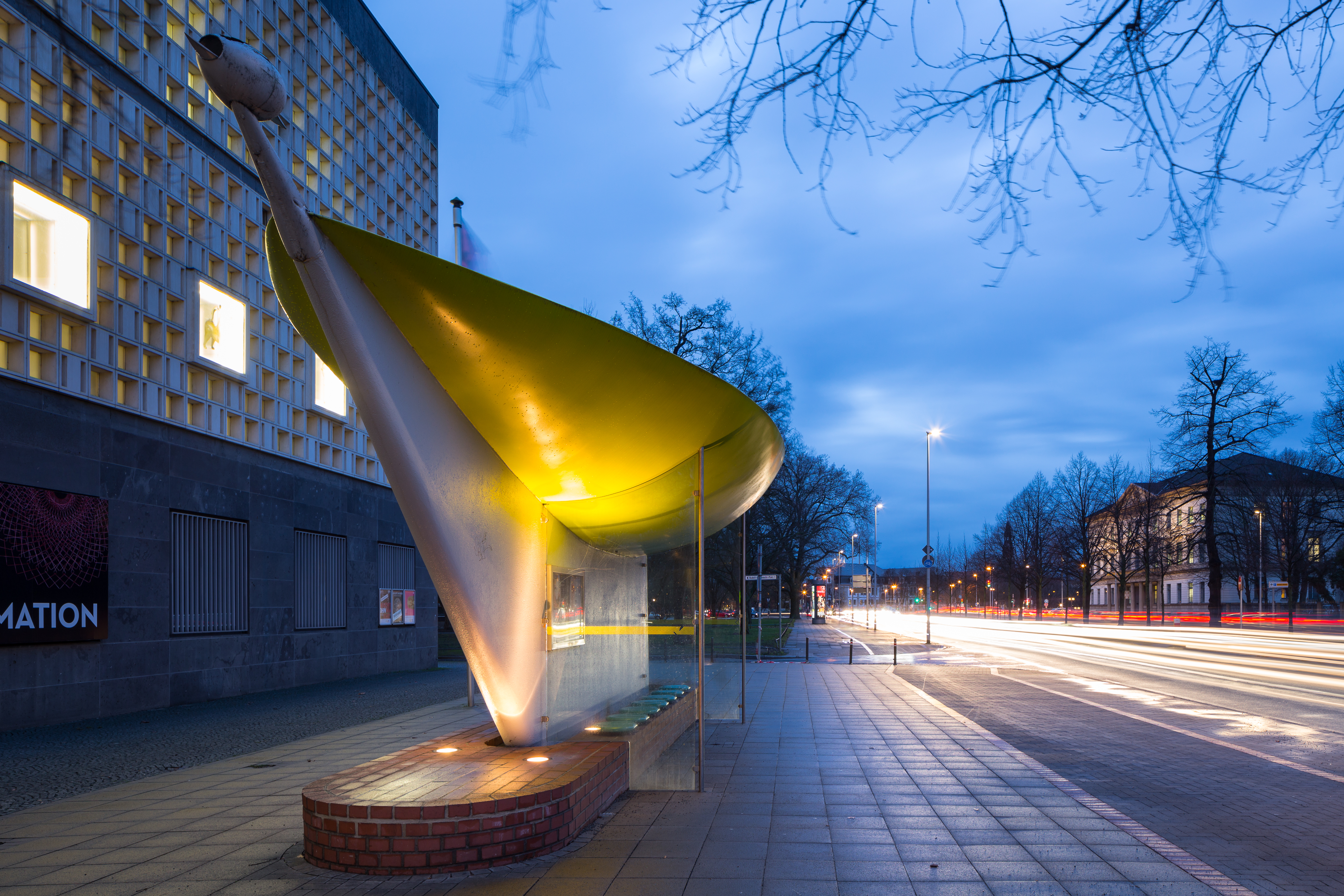 Bus station Rathaus / Friedrichswall, designed by Massimo Iosa Ghini as part of the BUSSTOPS art project. The station is located at Friedrichswall in Mitte quarter of Hannover, Germany. The museum August Kestner can be seen to the left.